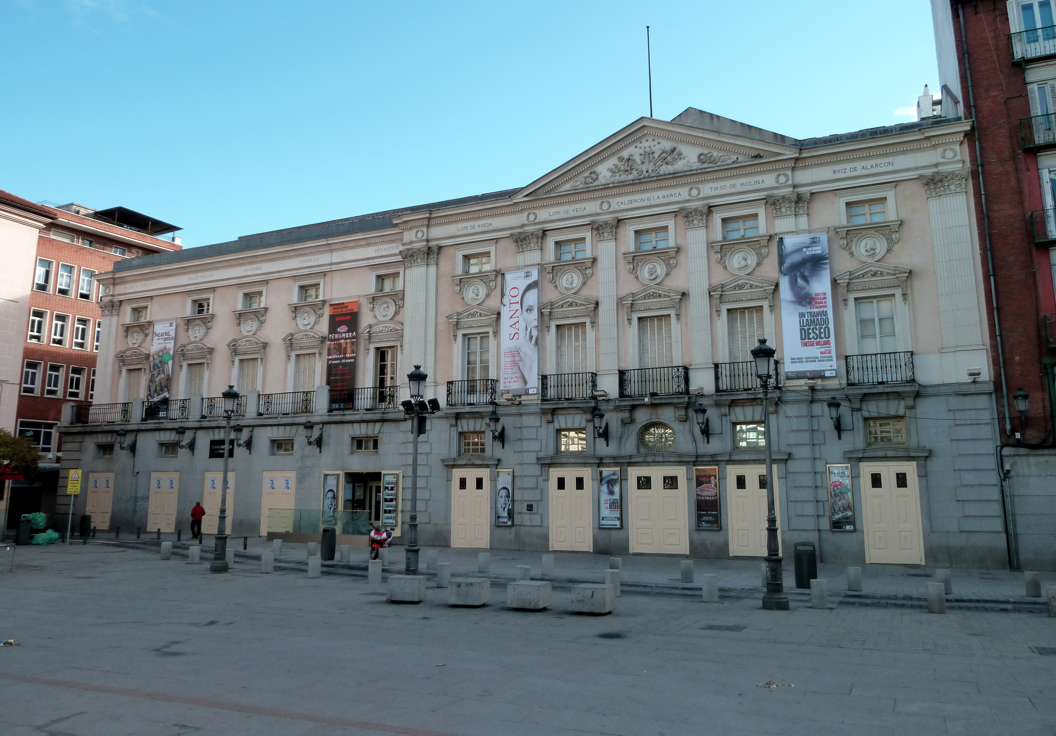 Façade of Teatro Español (a theater) in Madrid (Spain).